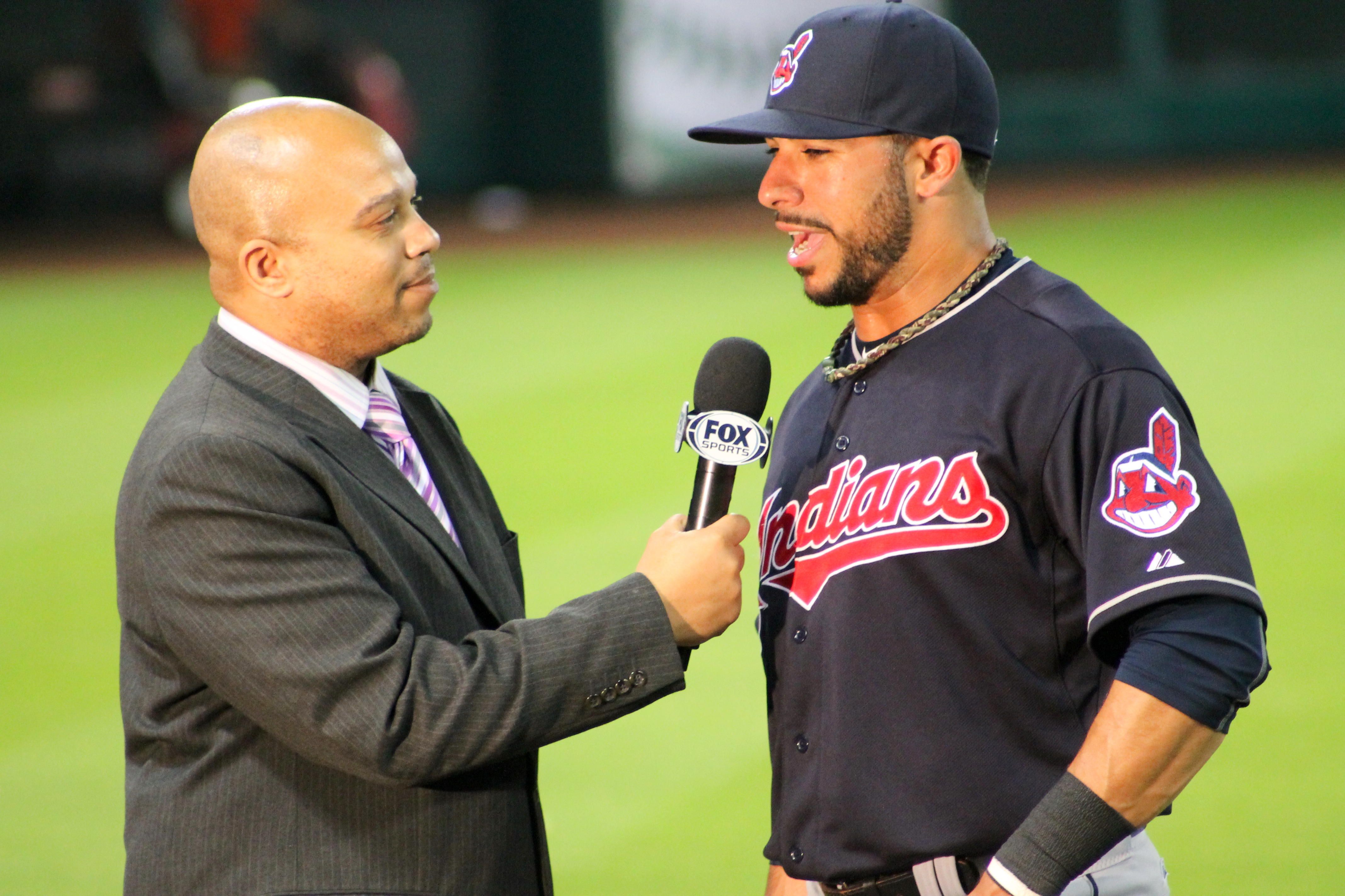 Professional baseball player Mike Avilés is interviewed by sports reporter Andre Knott at Minute Maid Park in Houston in April 2015.